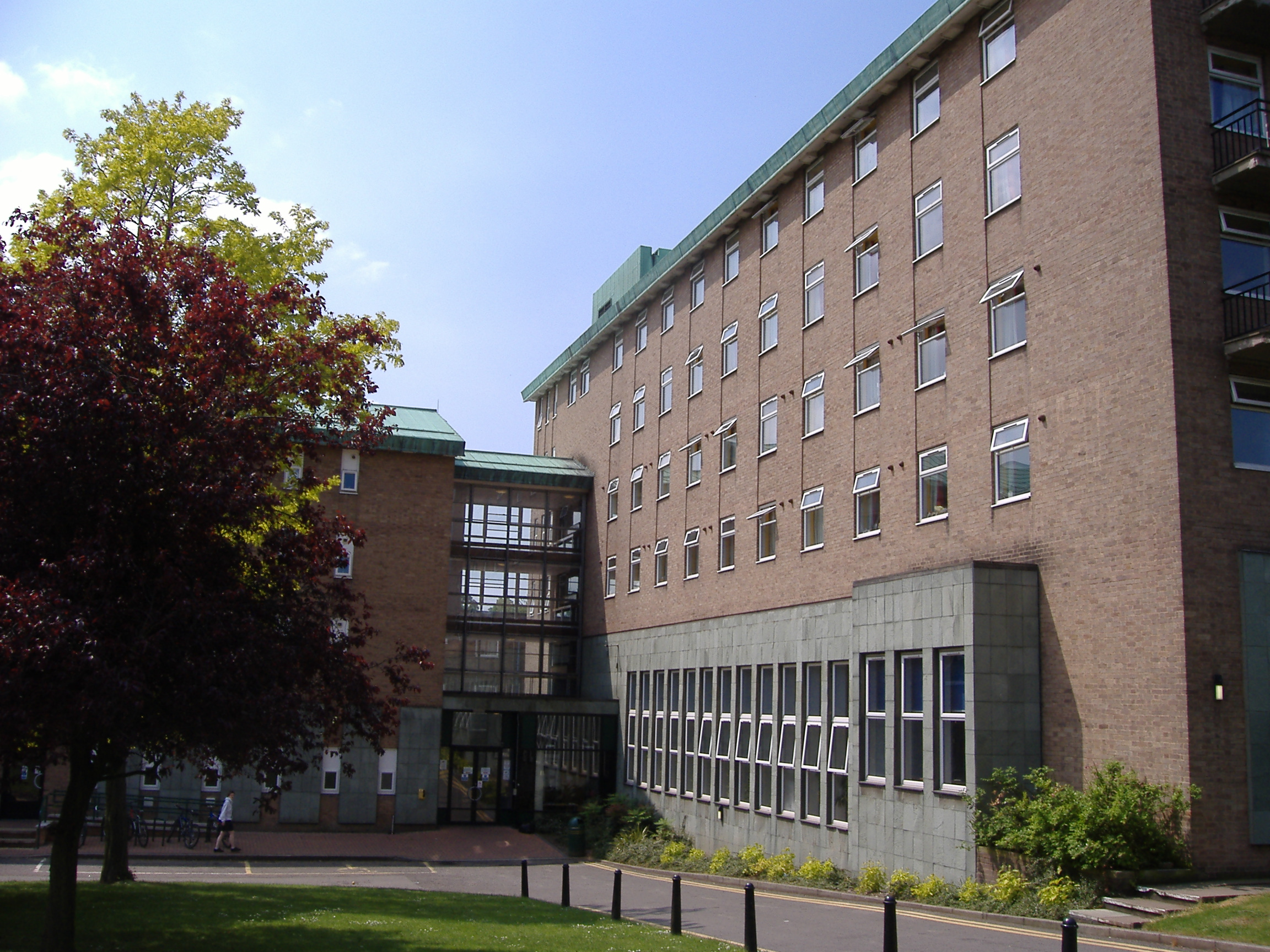 Willoughby Hall at the University of Nottingham.